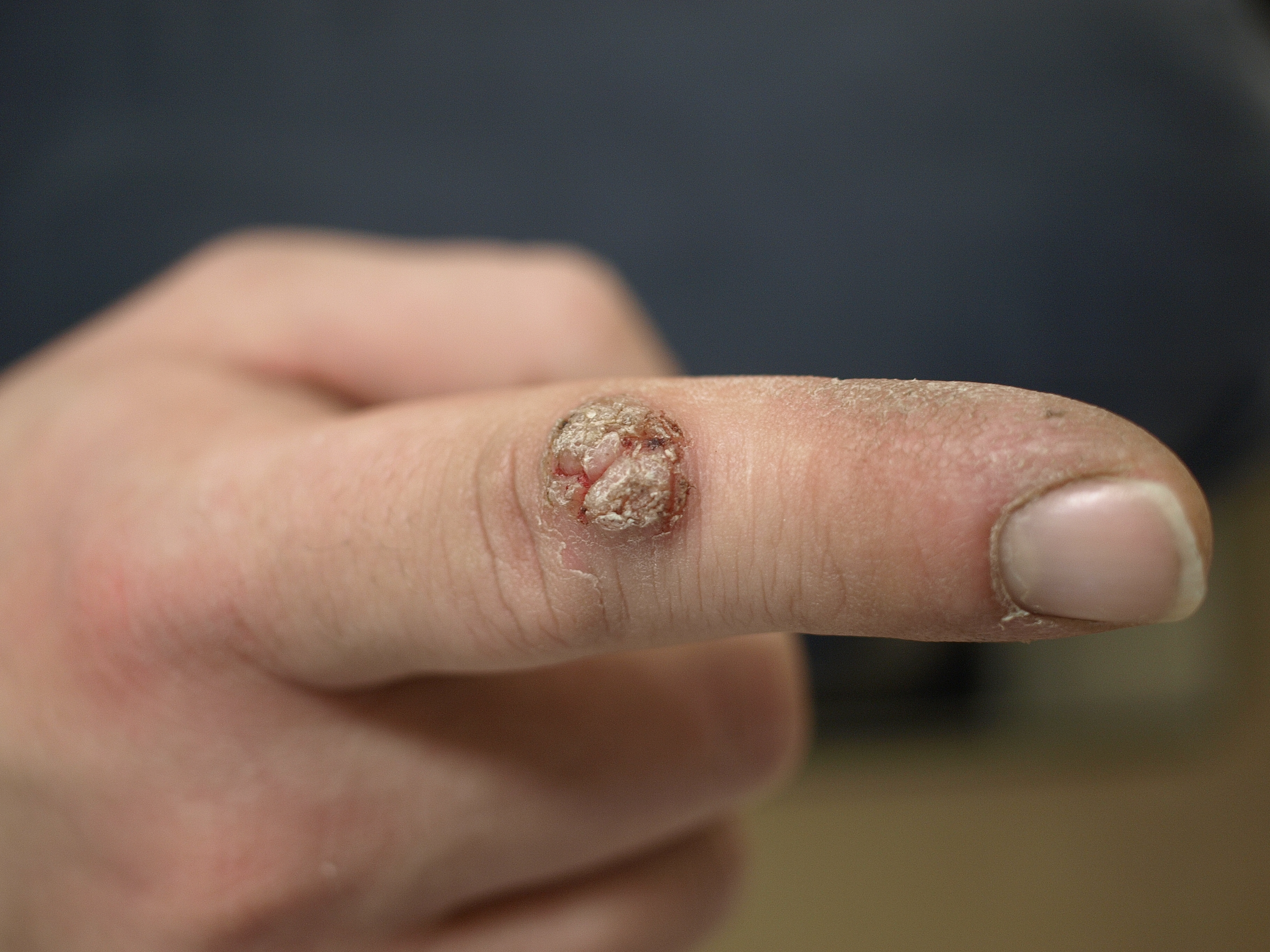 Verruca vulgaris